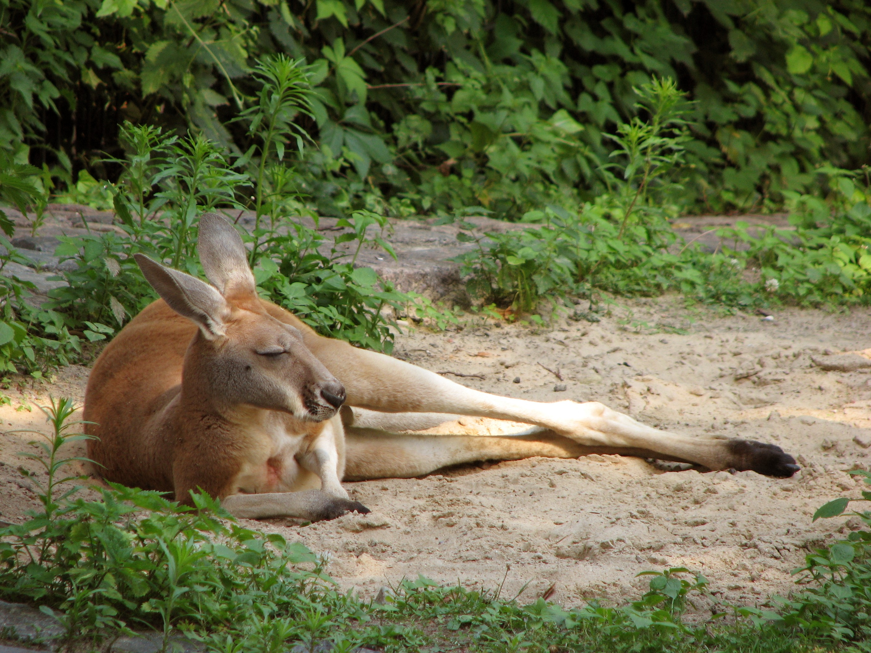 Macropus rufus (red kangaroo) resting.